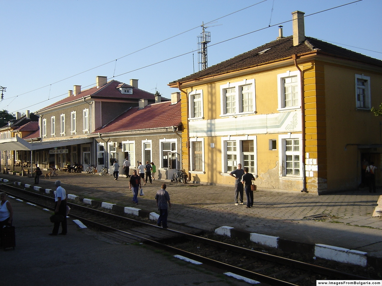 The train station of Kaspichan, Bulgaria